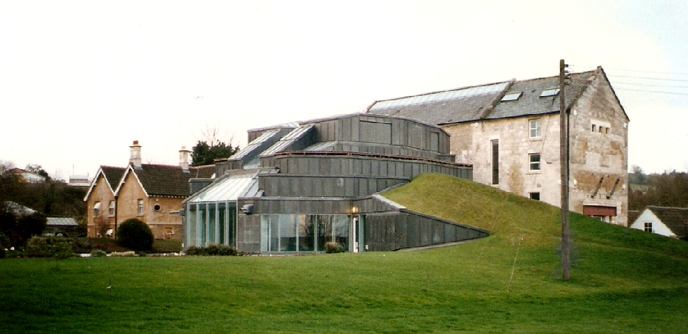 Side view of studio, showing addition